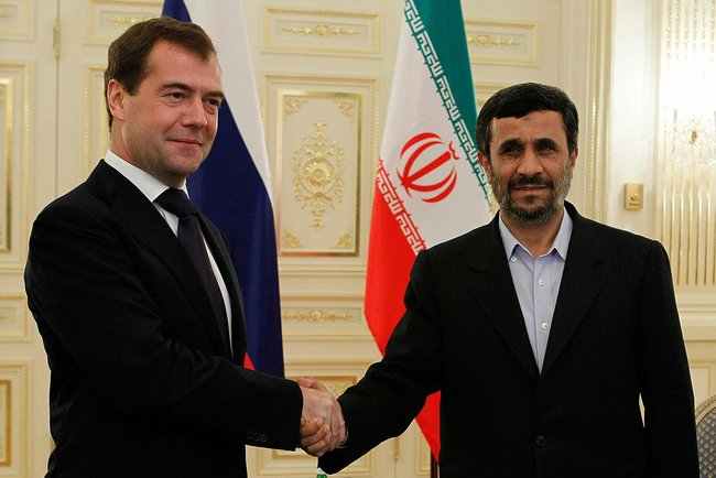 With President of Iran Mahmoud Ahmadinejad.